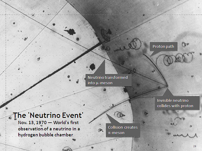 The first use of a hydrogen bubble chamber to detect neutrinos, on November 13, 1970. A neutrino hit a proton in a hydrogen atom. The collision occurred at the point where three tracks emanate on the right of the photograph.